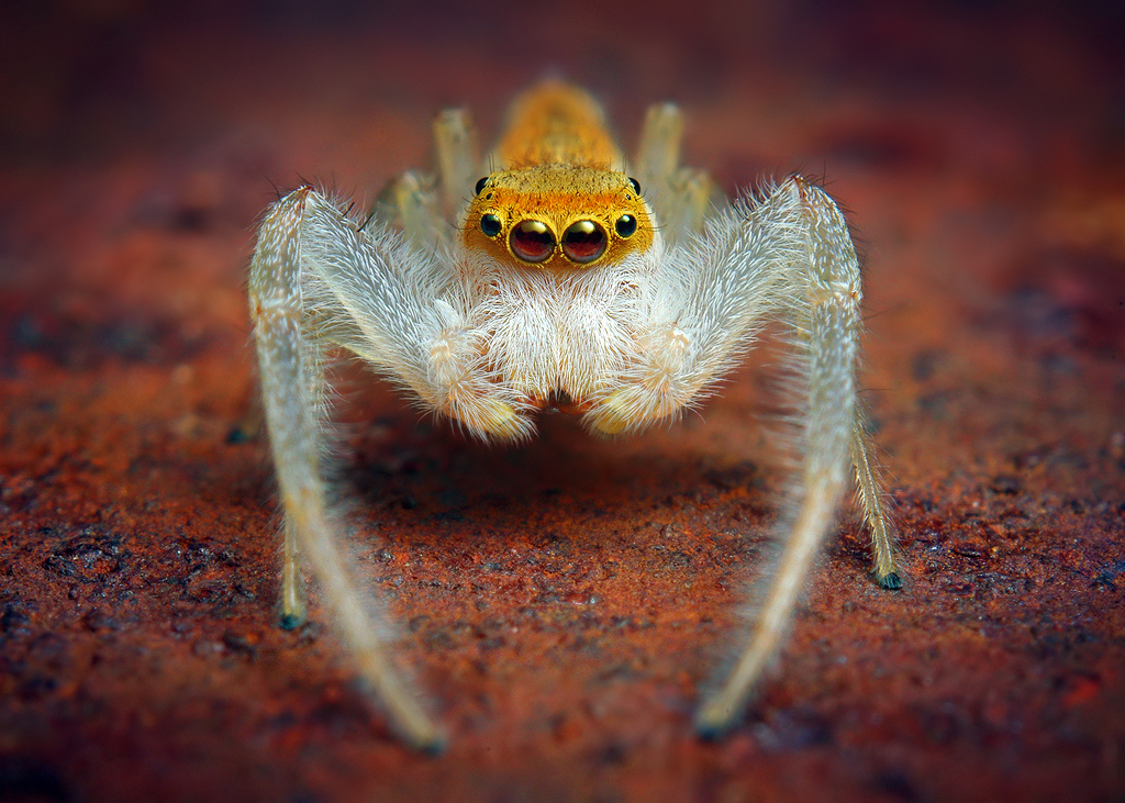 Found and photographed on a rusty bridge last July - I'm just now getting around to sorting through some of the shots I took last summer! The bridge I found him on has proven quite a fruitful area during the summer months for arthropods - nearly everytime I've crossed it, I've encountered jumpers. Just to see them spin around and frantically wave their little arms as you walk by makes visiting the spot worthwhile! Just to name a few salticid finds - Phidippus putnami, Phidippus audax, Hentzia mitrata, Hentzia palmarum, Admestina tibialis, Zygoballus rufipes... almost all immature, but where there are young ones there are adults of course. This same location also has some of the largest horseflies I have ever seen - I'll have to return next summer and get some video of them sucking my blood! I took several photos of this little guy (~4mm body length), including my usual high-mag portraits, but I thought this was the best shot of the bunch. It's a bit different than my usual posts, but I figured I should "back up" a bit with my compositions, even though the low-angle portraits and eye shots have kind of become my thing. Taken with the 50mm reversed on extension tubes (not many) at f/11 or so. I applied a little bit of vignetting in Photoshop to add a bit of variation to the background he's on.